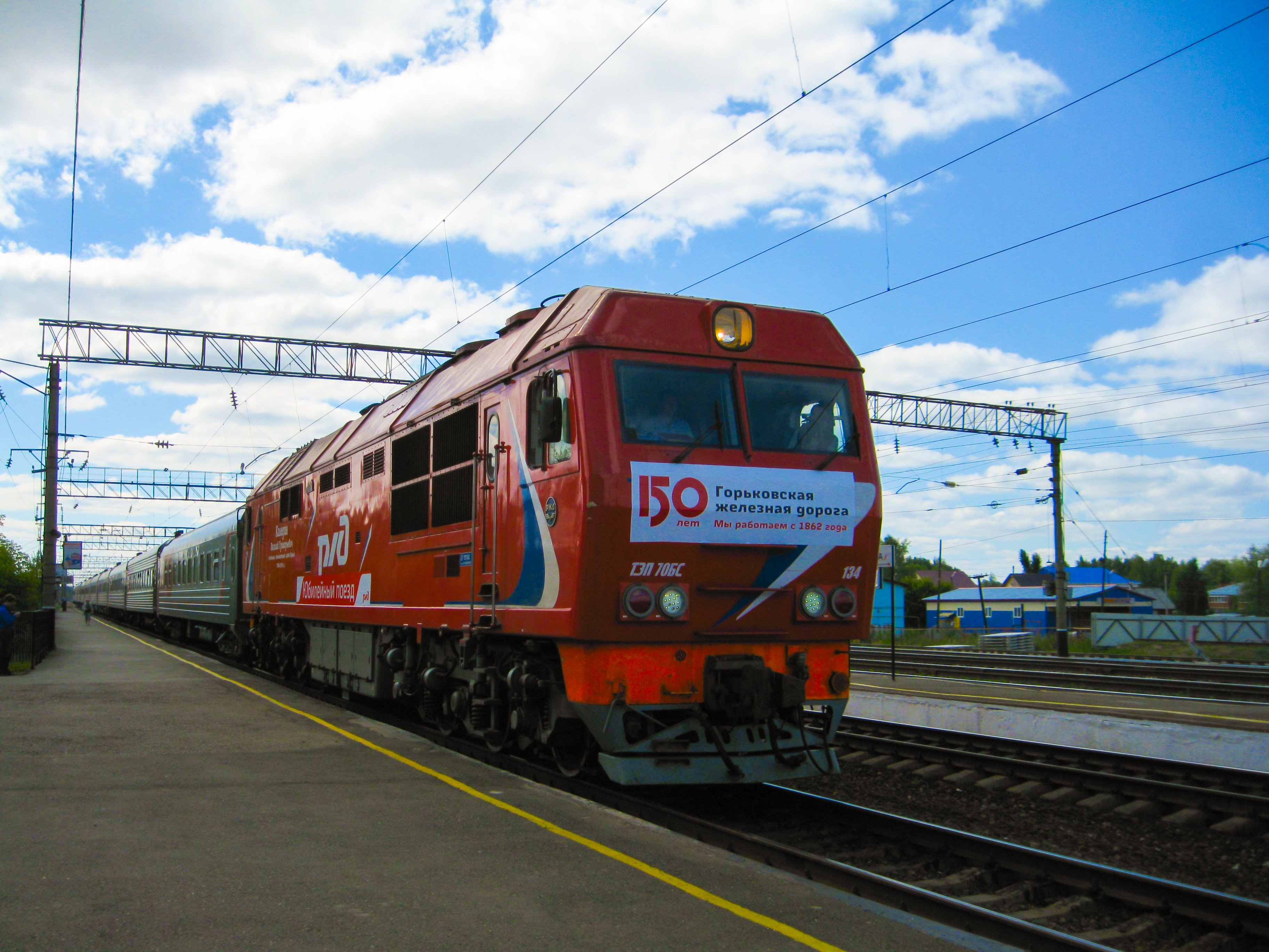 Diesel locomotive TEP70BS 134